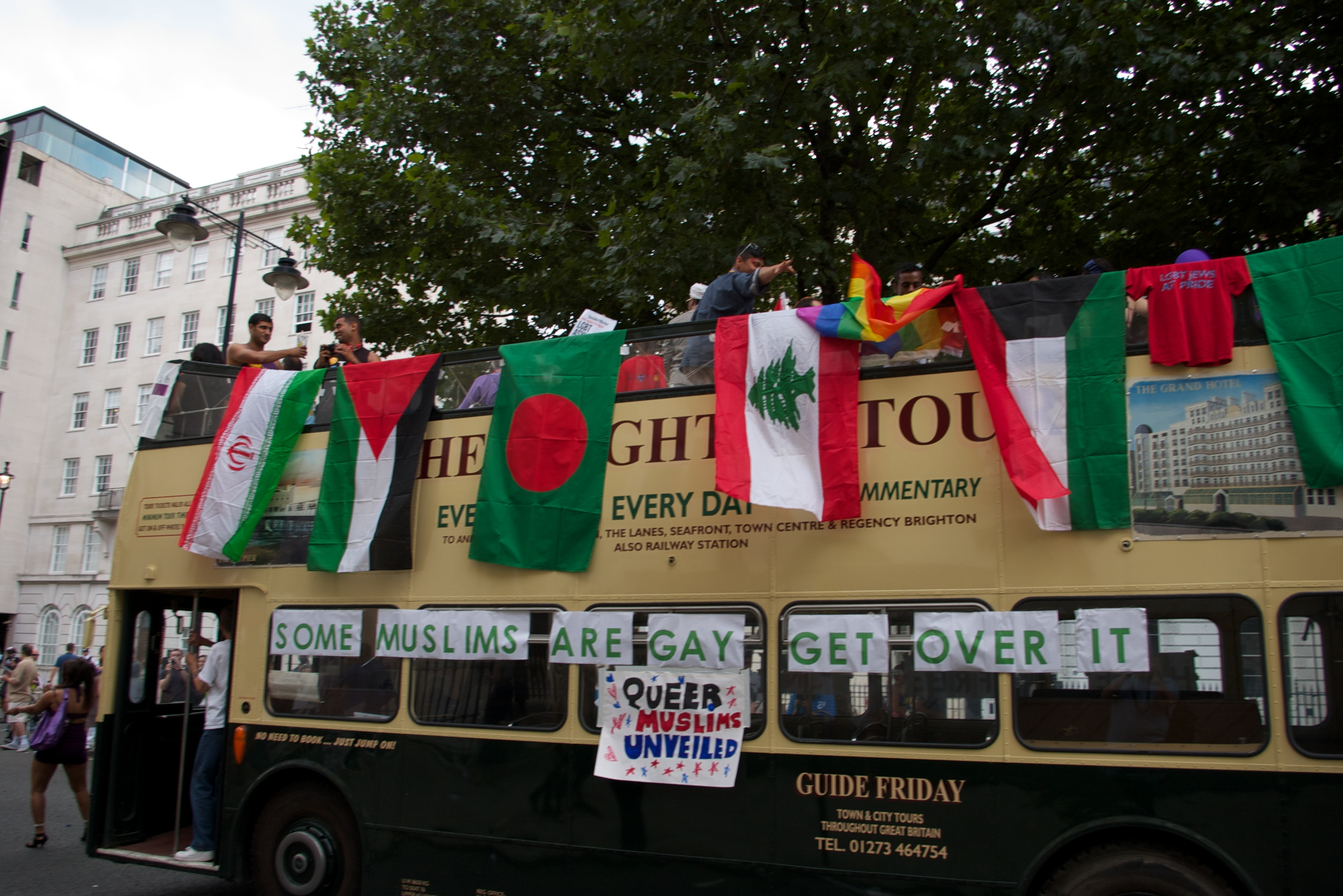 LGBT Muslims float at Pride London 2011, near Portland Place.